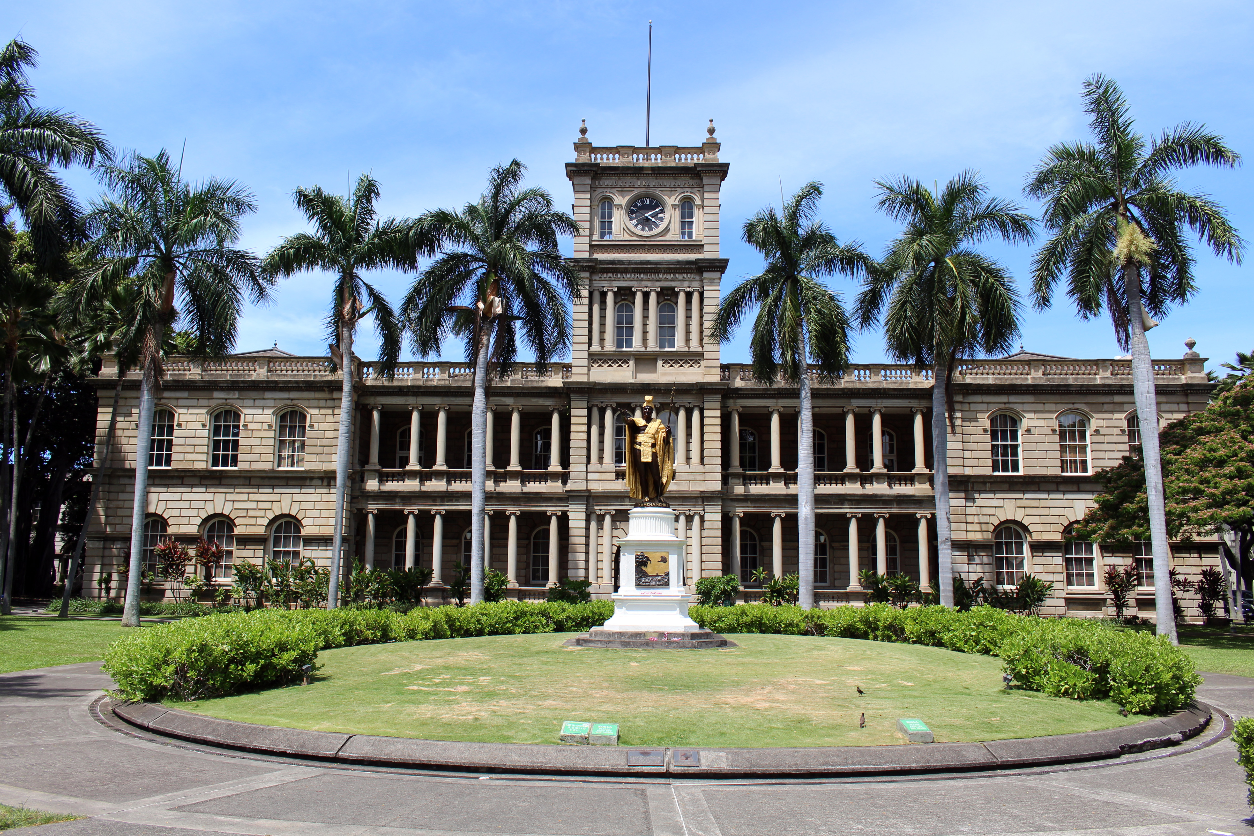 Aliʻiōlani Hale in Honolulu, Hawaii, the home of the Supreme Court of Hawaii. Photographed by user Coolcaesar on May 25, 2019.